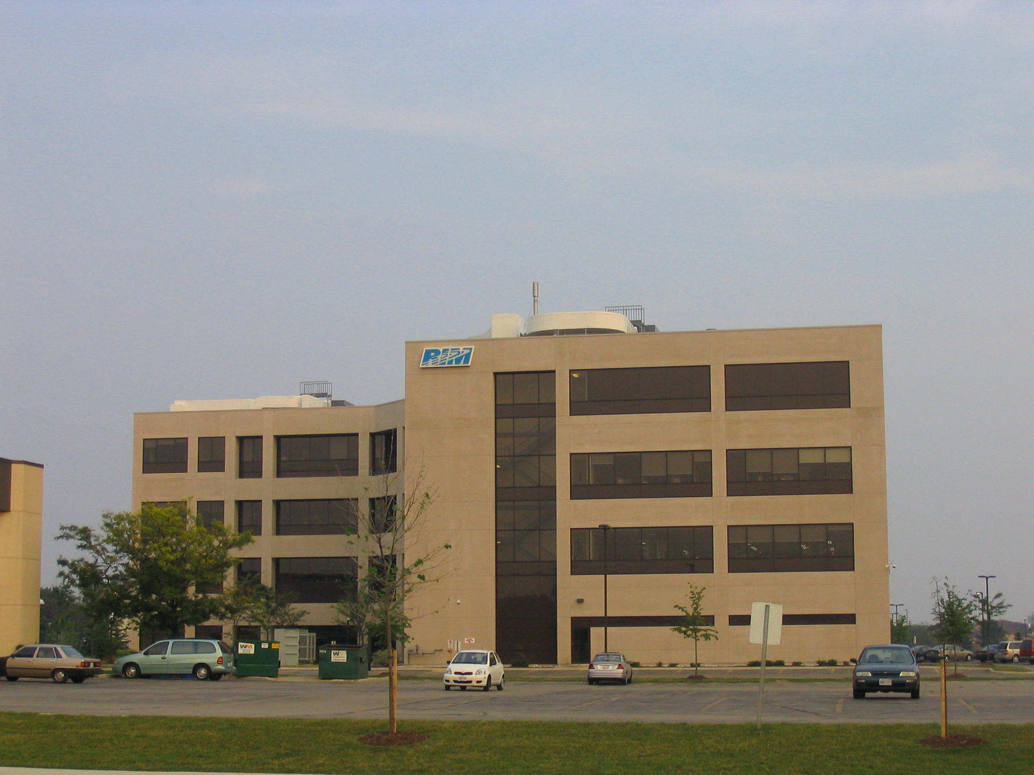 The Research in Motion headquarters, based in Waterloo, Ontario, Canada